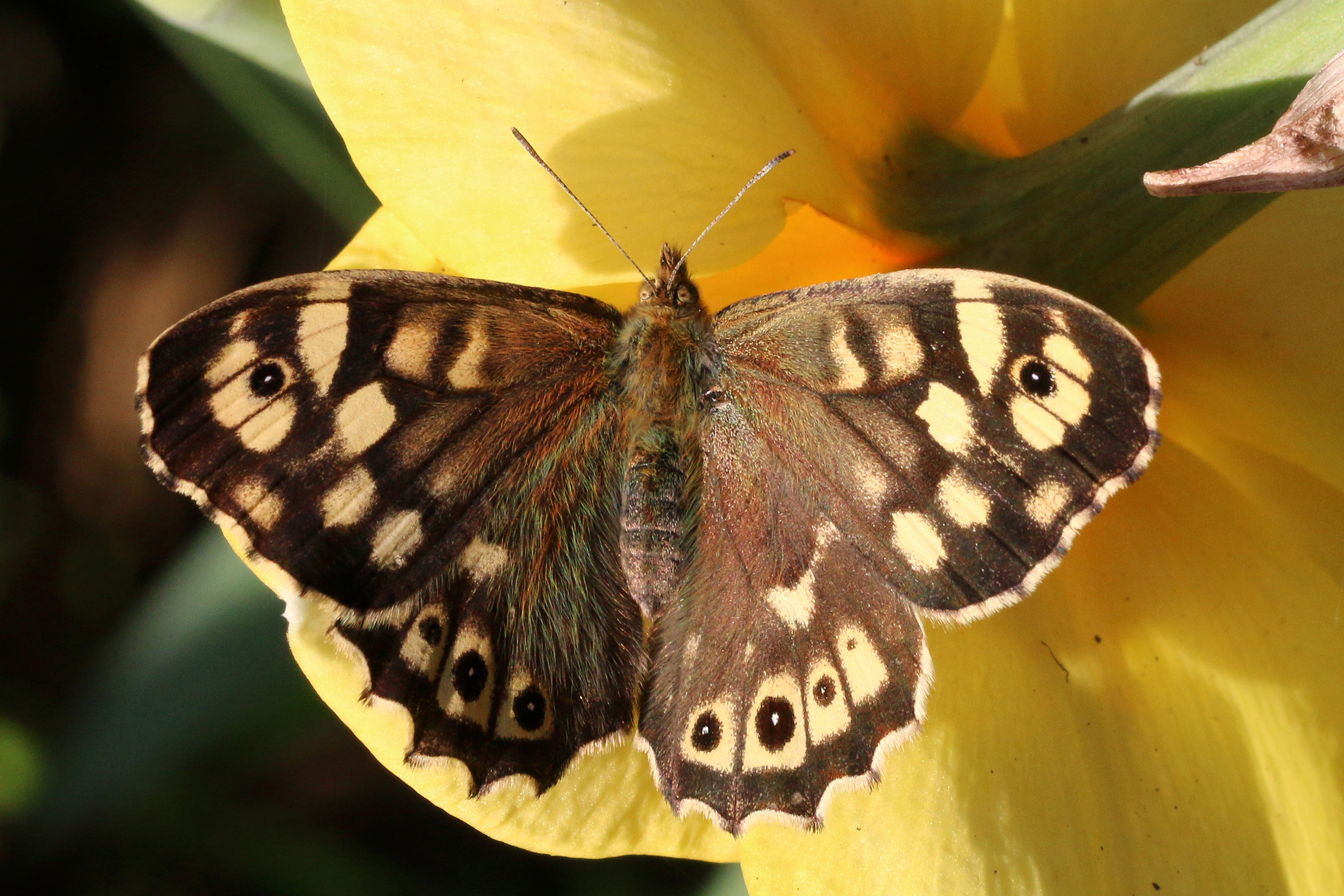 Speckled wood (Pararge aegeria) female, Cumnor Hill, Oxford